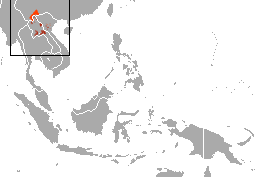 Northern White-cheeked Gibbon (Nomascus leucogenys) range (brown — extant, orange — probably extinct)